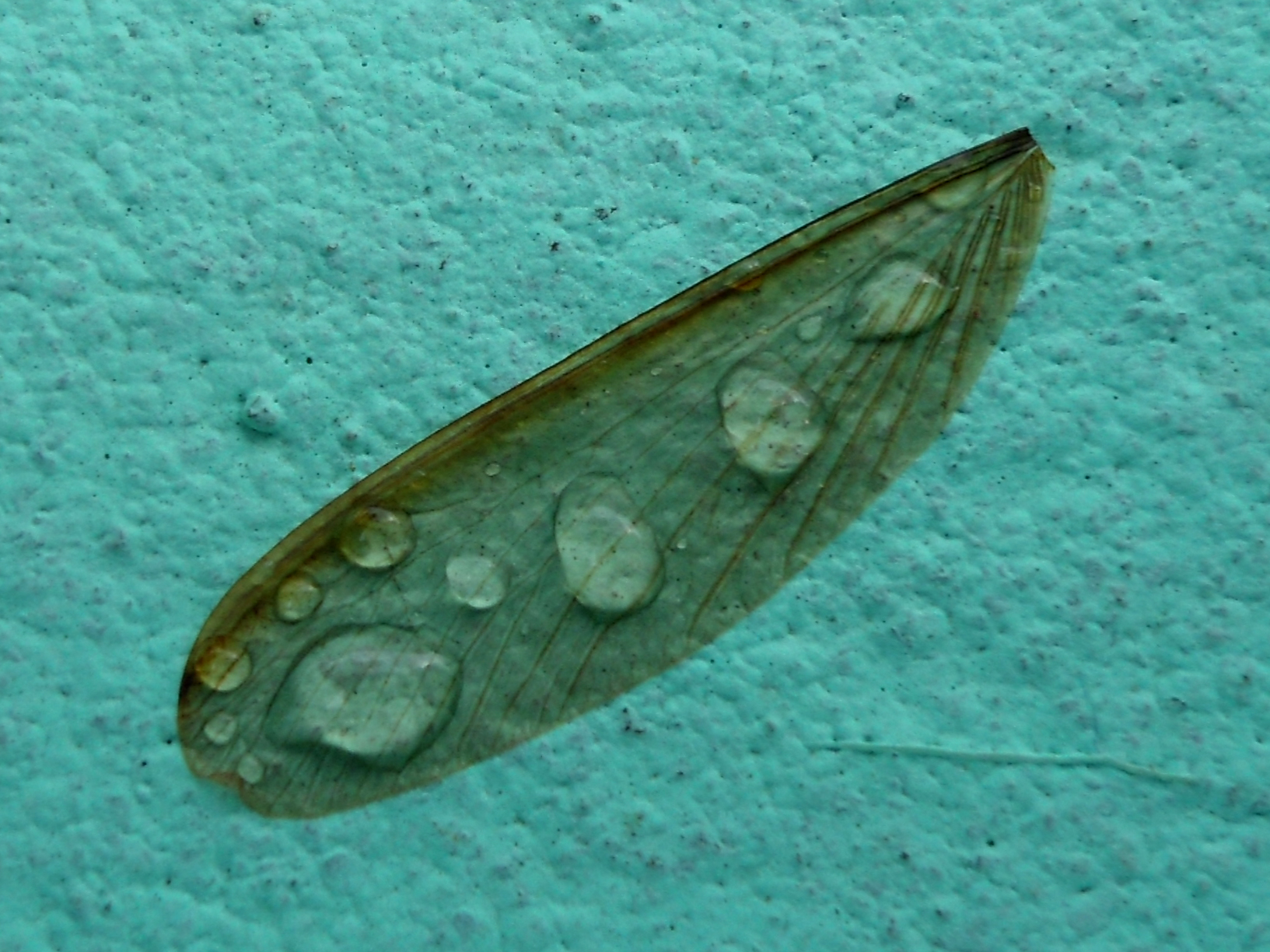 Rain Drops on the Lost wing of a Winged termite at Madhurawada, Visakhapatnam, India